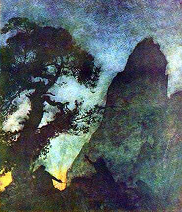 "The Fates on Brunnhildes Rock"